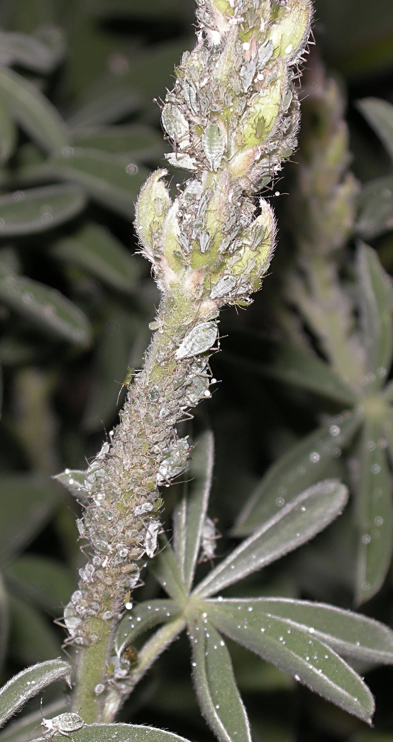 Aphids infesting Lupine Stalk